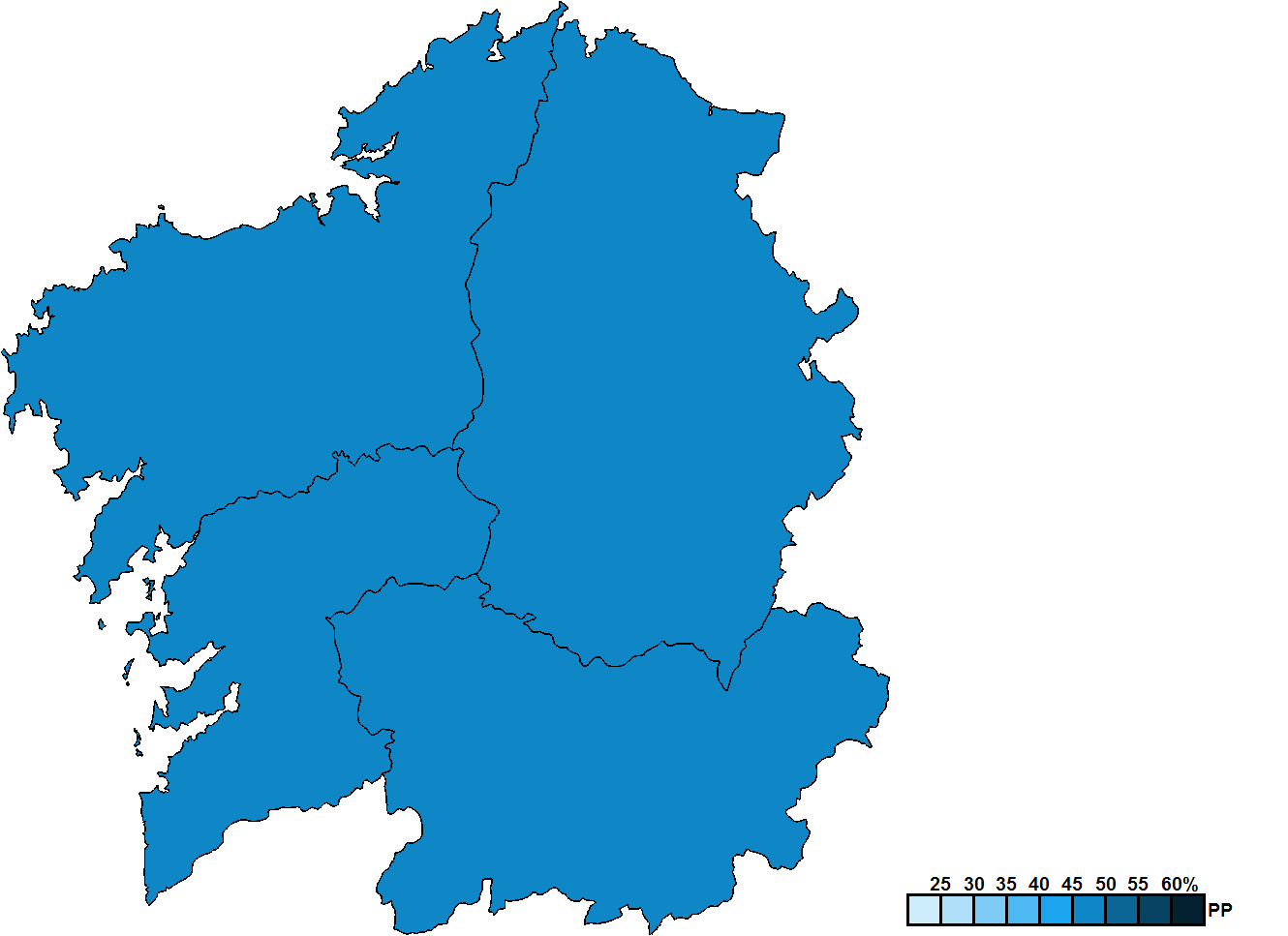 Provincial results for the 2009 Galician regional election.